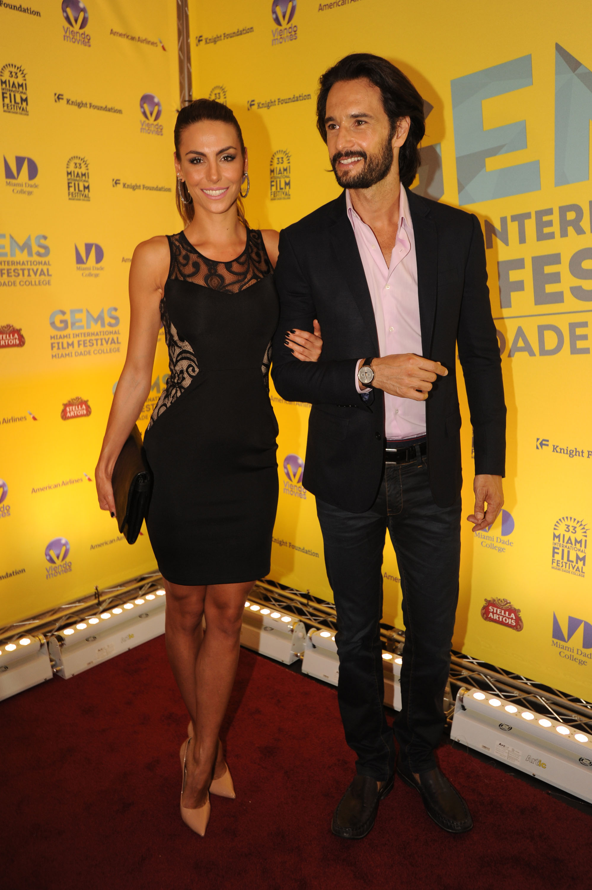 Melanie Nunes Fronckowiak (left) & Rodrigo Santoro at the Miami Film Festival Photo by World Red Eye